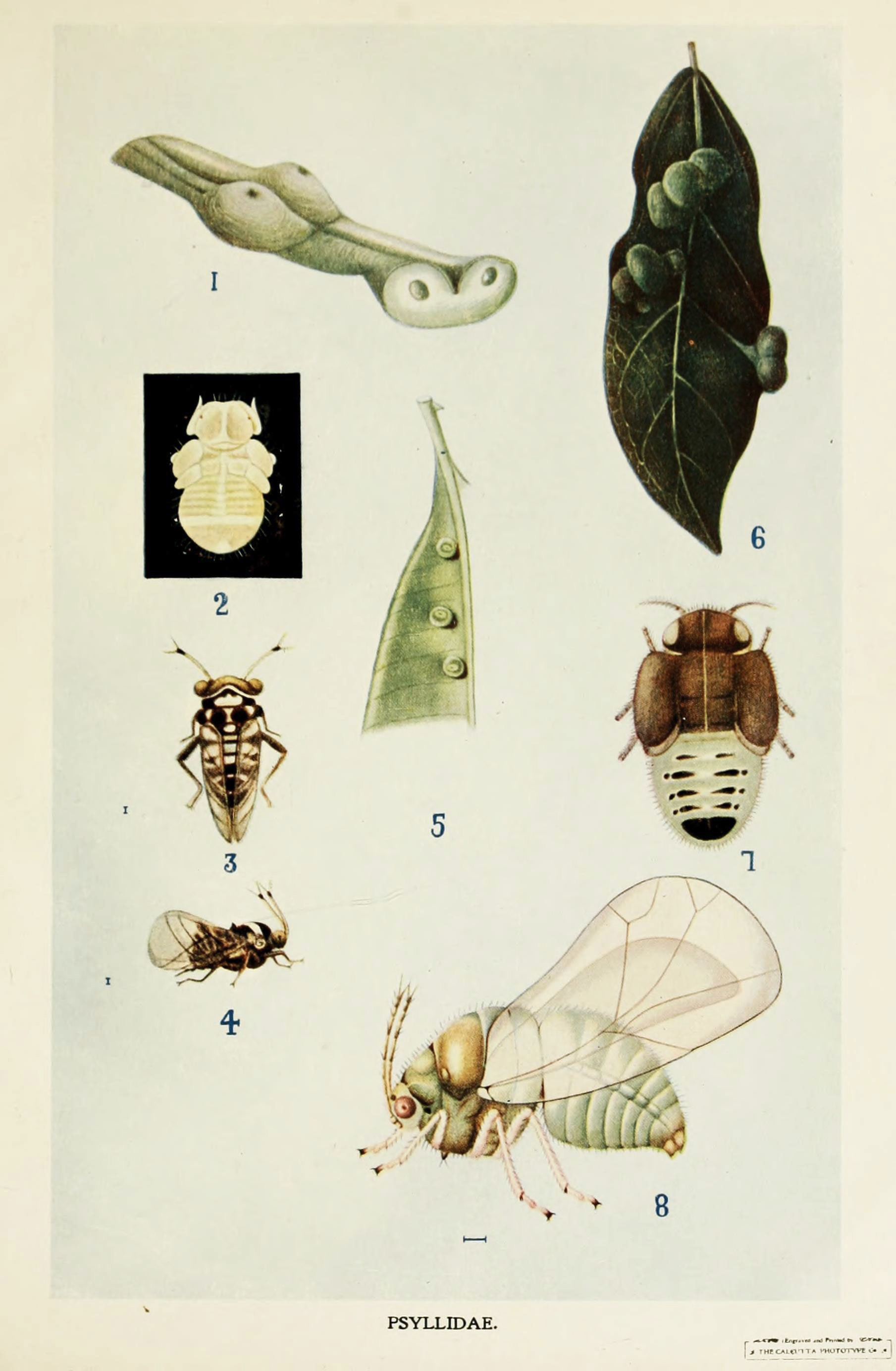 Picture from book Indian Insect Life: a Manual of the Insects of the Plains by Harold Maxwell-Lefroy.